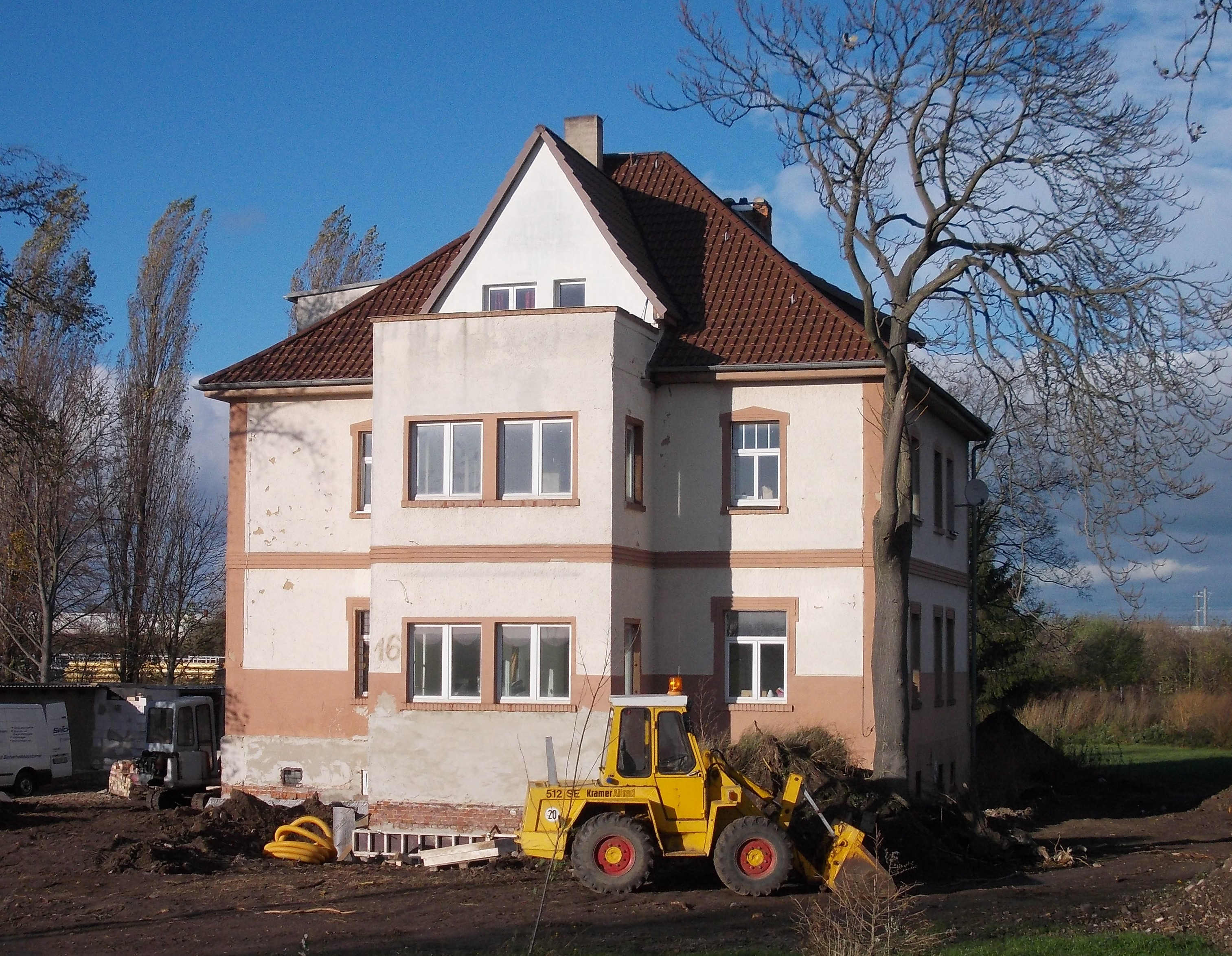 No. 16, Hallesche Strasse in Gröbers (Kabelsketal, district: Saalekreis, Saxony-Anhalt)